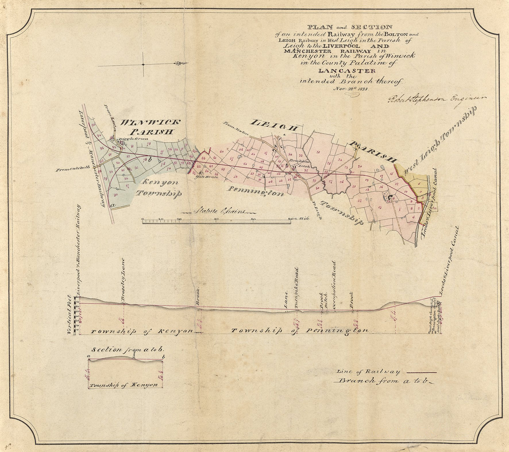 1828 plan showing a proposed railway line between Kenyon and Leigh. Signed Robert Stephenson.